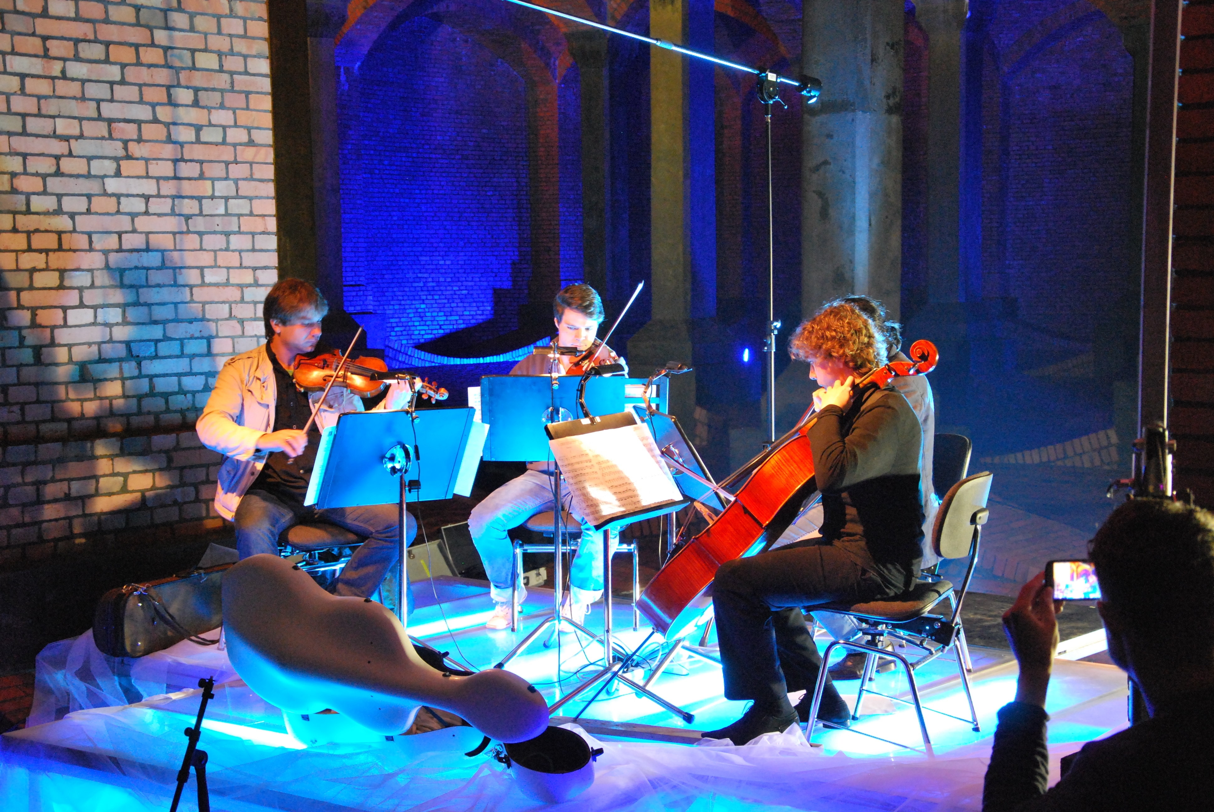 String quartet into underground water tank in Stoki, Łódź